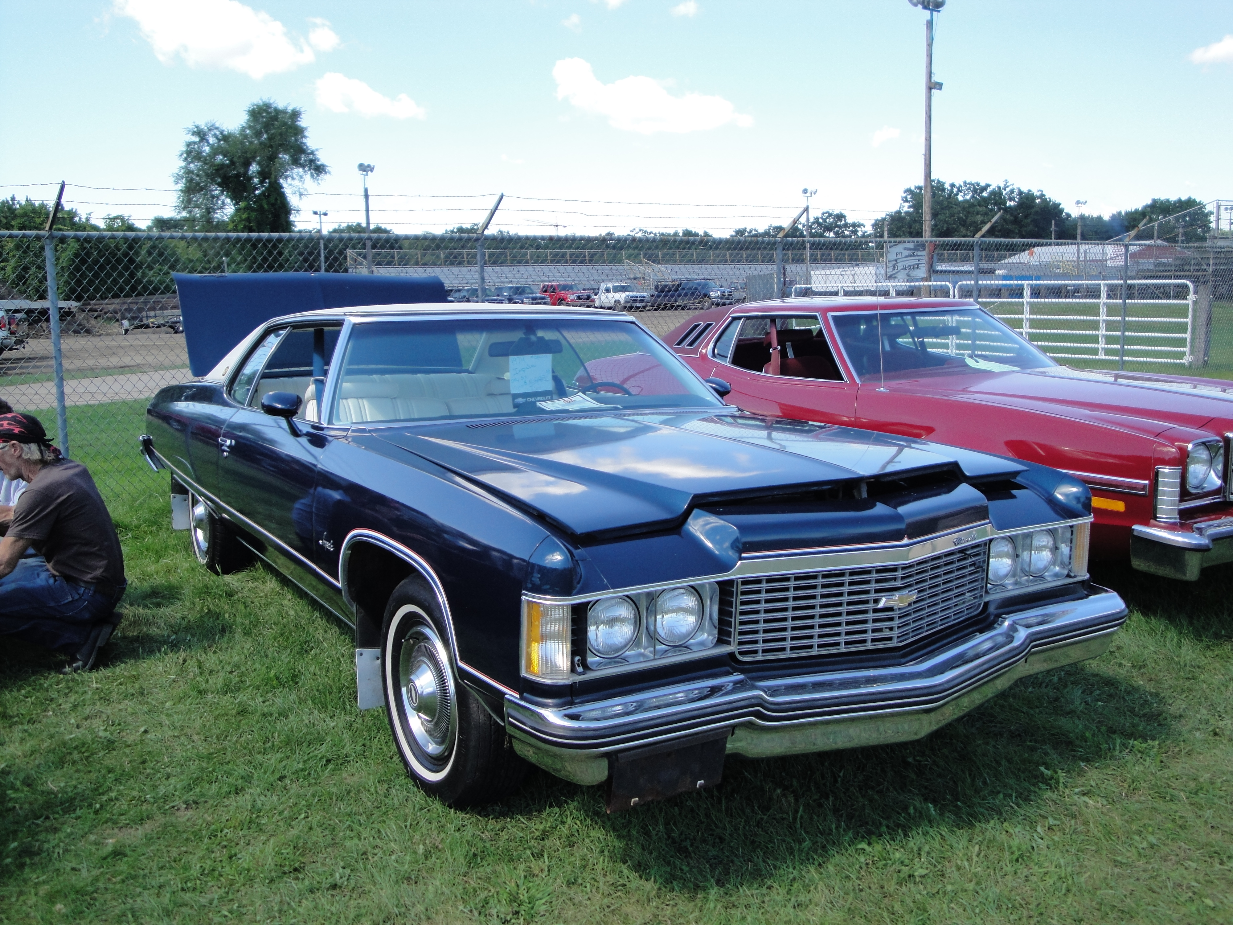 View On Black The Pantowners Annual Car Show and Swap Meet Sunday August 21, 2011